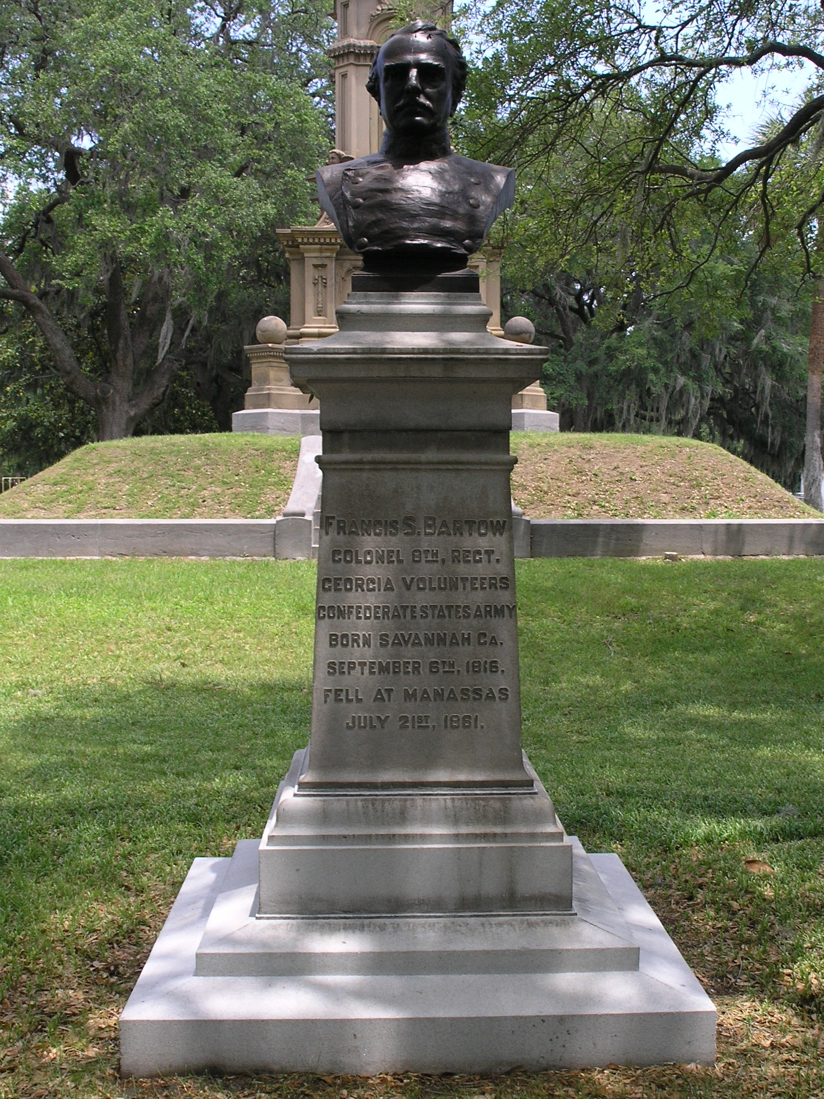 Image of memorial to Francis S. Bartow, Savannah, Georgia